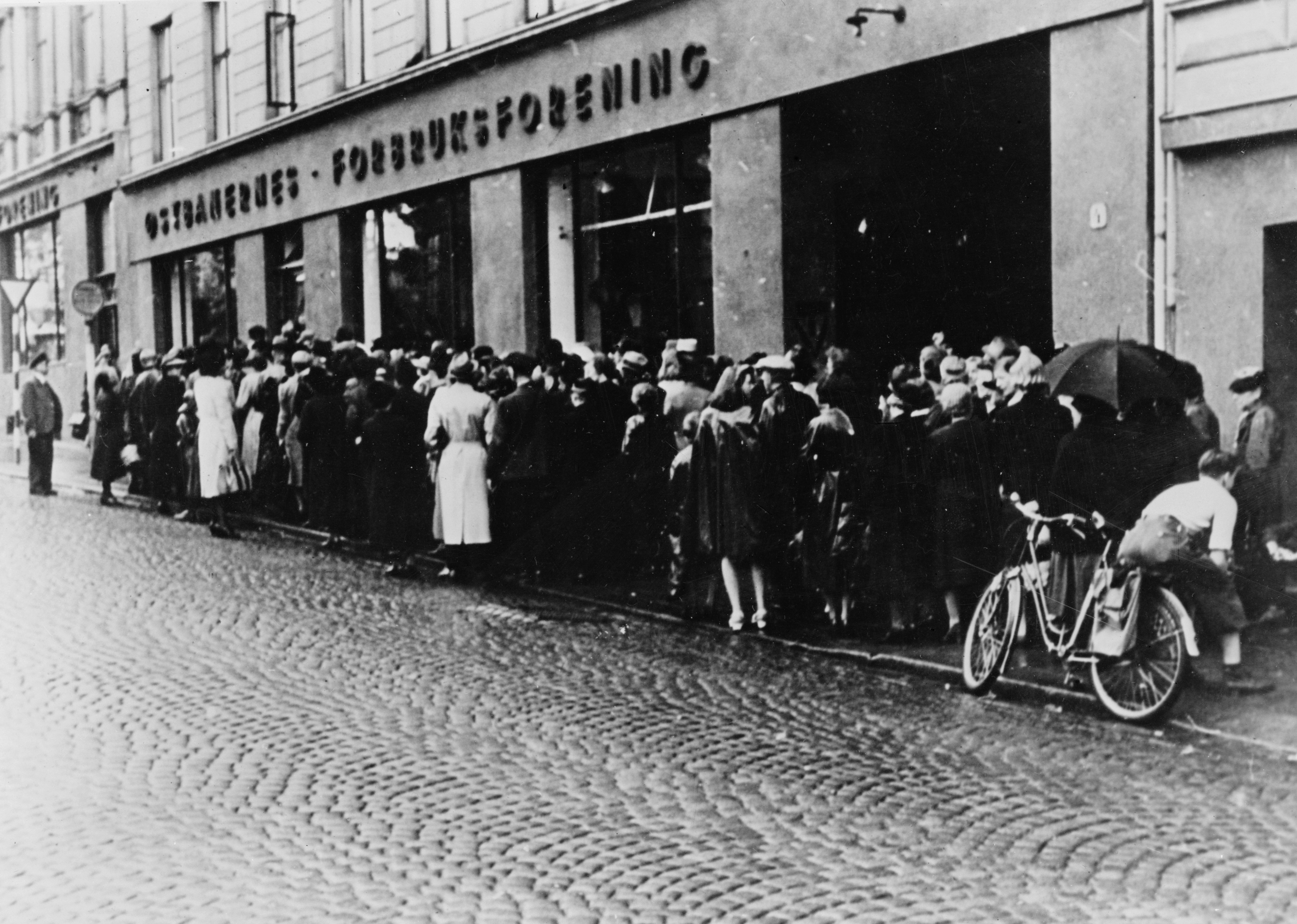 Oslo, Norway, during WW2. The food queues in Oslo are constantly growing. It is a usual sight to see people queuing outside the shops as early as 5 o'clock in the morning. In spite of the adverse weather conditions people are standing hour after hour hoping to get a small share of unrationed goods, which are often sold out almost as soon as the shops open